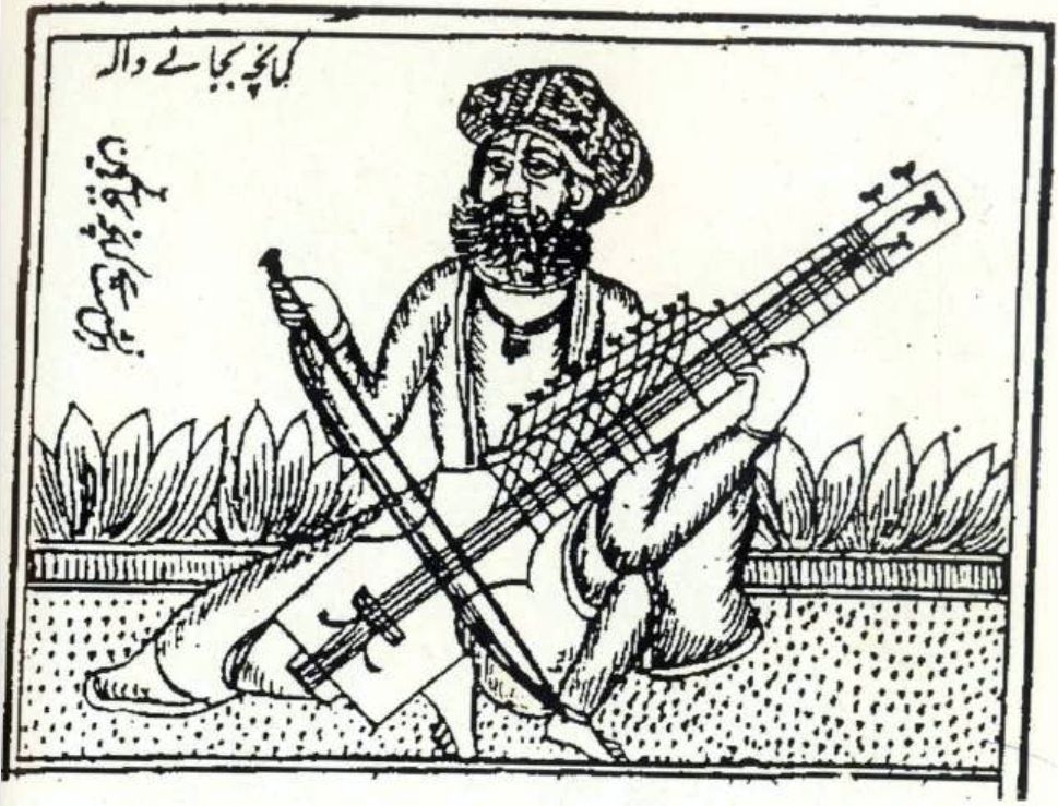 Bowed string instrument kamanca, popular in Punjab, 19th century